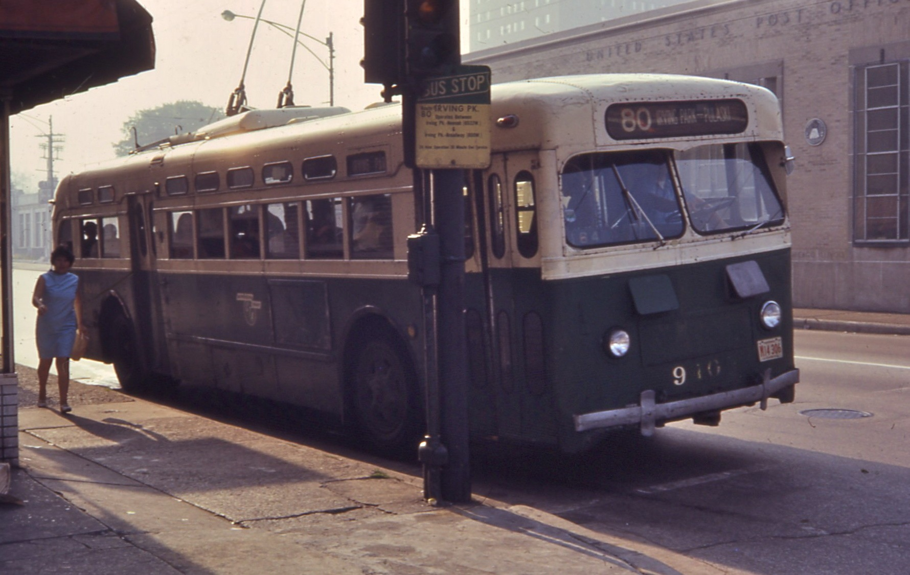 Chicago trolley bus 9400, built by the St. Louis Car Company in 1948, in service on route 80-Irving Park Road, in 1968. The location is on Irving Park Road at Southport Avenue, and the trolley bus's sign is displaying the route number with a red slash through it, indicating a short-turn service (not the full route), in this instance to Pulaski Avenue.Original description by the photographer, on Flickr: It was a rarity to see a St. Louis trolley-bus on Irving Park Rd. Usually they only operated on Montrose.